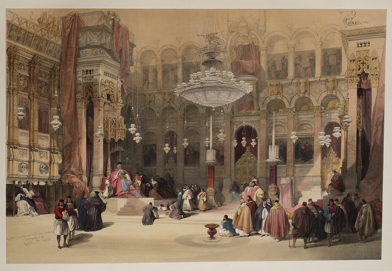 London : F. G. Moon, 1842–49